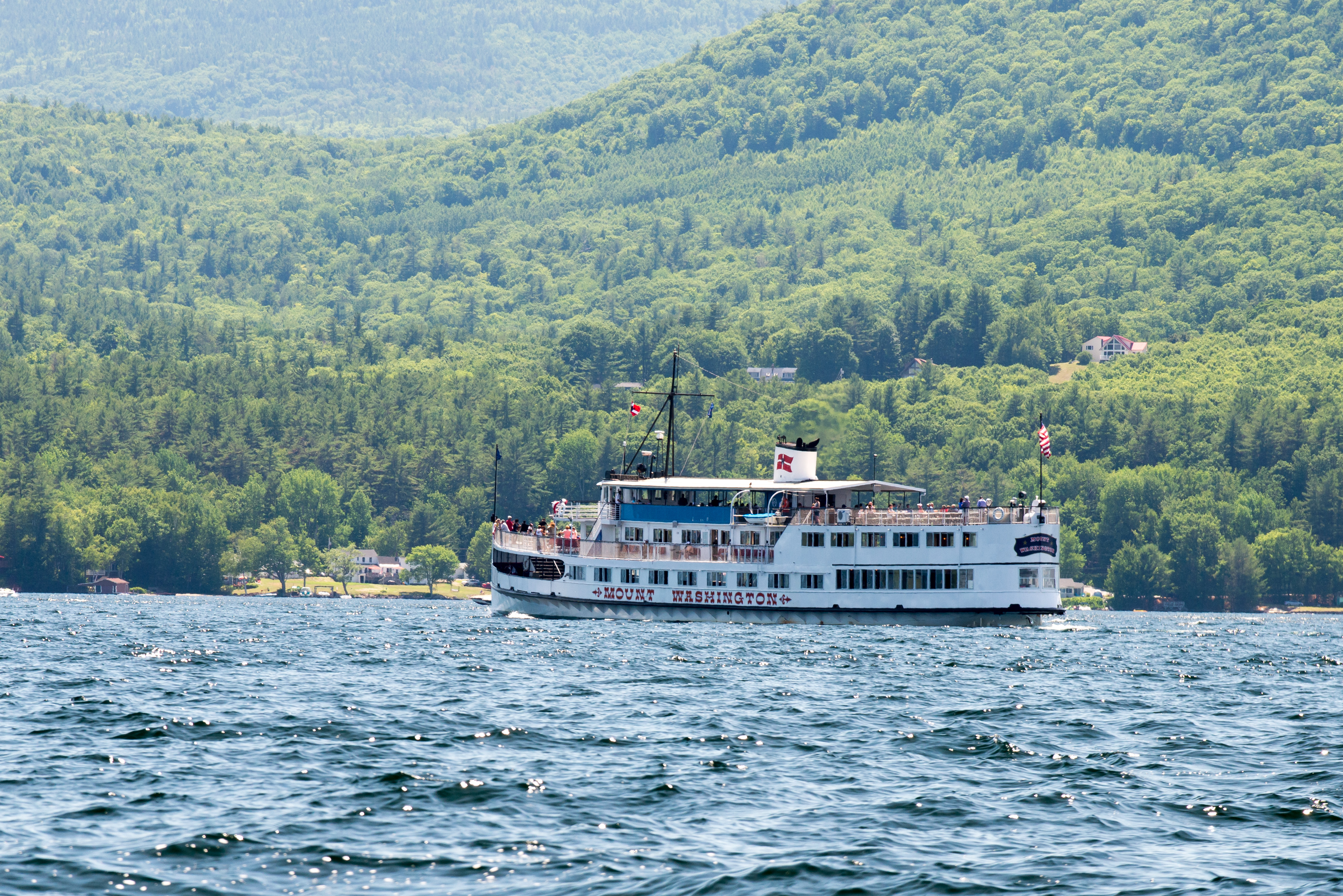 The MS Mount Washington, a scenic cruise ship on Lake Winnipesaukee, New Hampshire, steams near Rattlesnake Island.